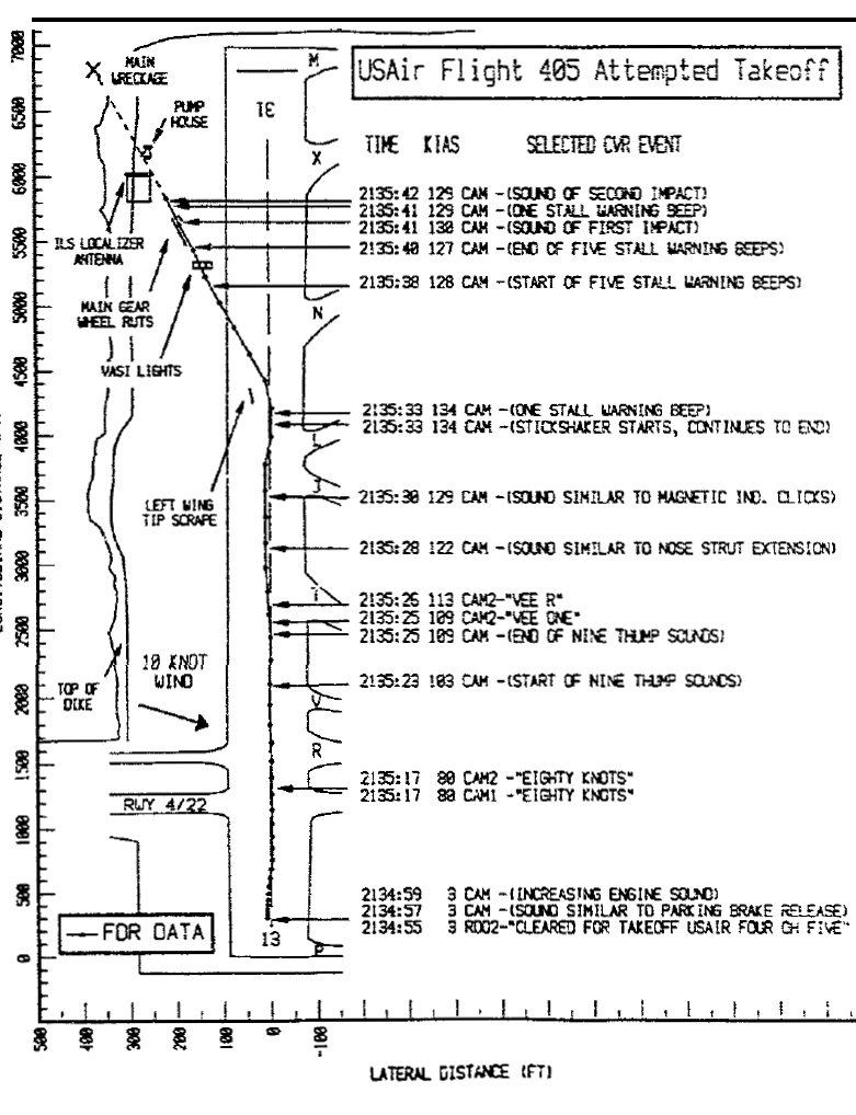 USAir Flight 405 Attempted Takeoff.